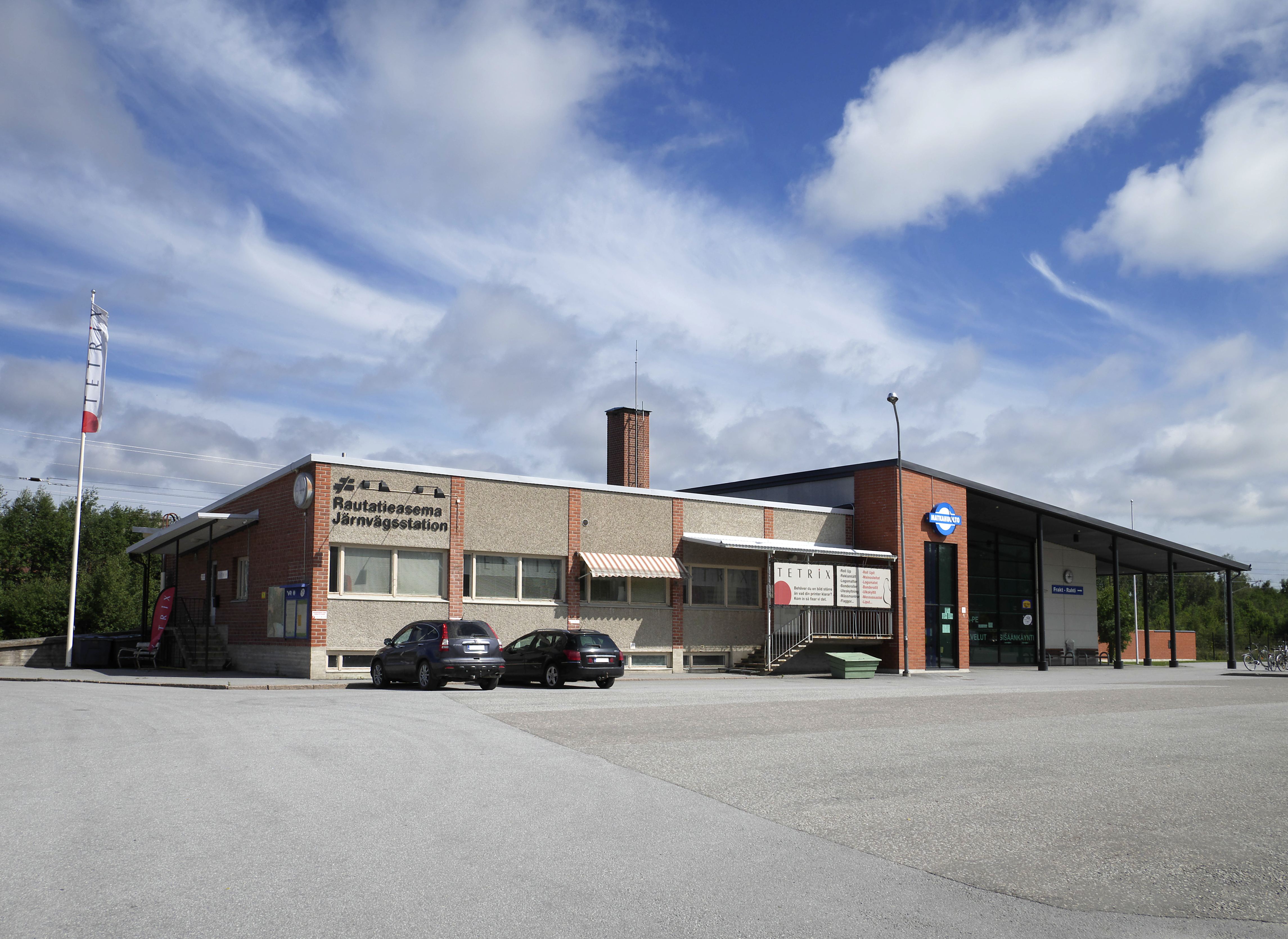 Jakobstad railway station and bus station.